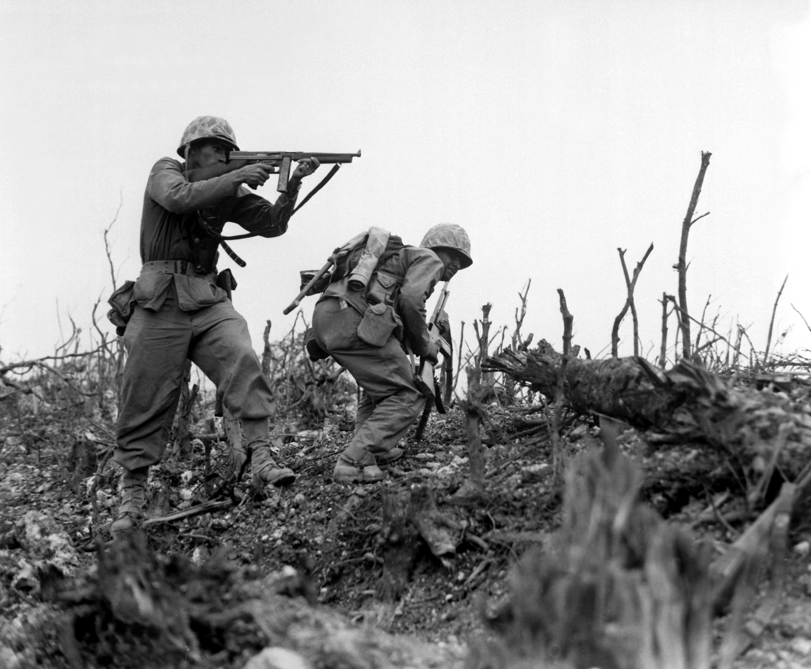 A Marine named Sgt. John Wisbur Bartlett Sr. of the 1st Marine Division draws a bead on a Japanese sniper with his tommy-gun as his companion ducks for cover. The division is working to take Wana Ridge before the town of Shuri. Okinawa, 1945.